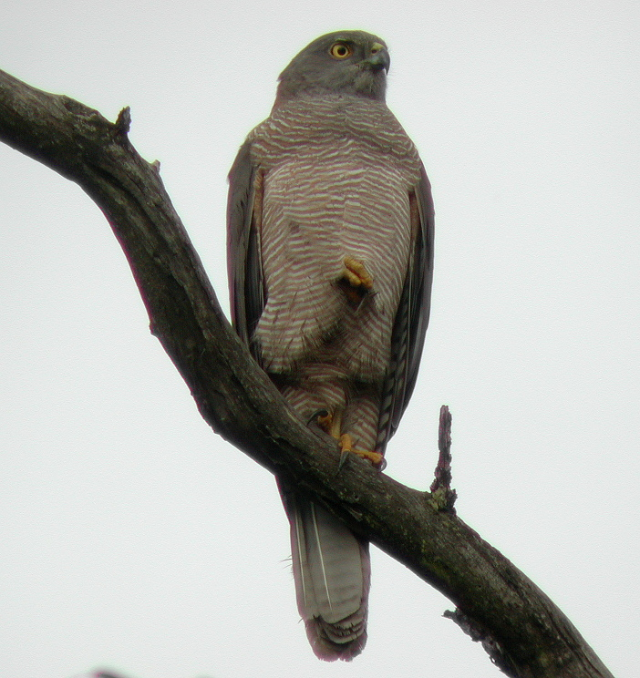 Brown Goshawk (Accipiter fasciatus) Kurwongbah, SE Queensland, Australia